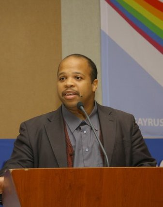 This is a photo of Louis Georges Tin I took during the Minsk LGBT Conference in Belarus on Sept 26, 2009.